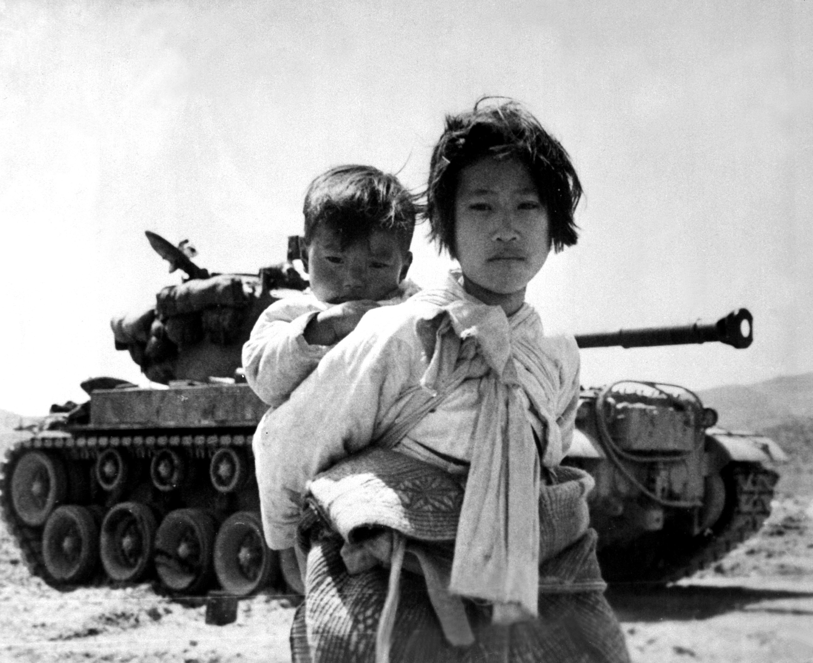 With her brother on her back a war weary Korean girl tiredly trudges by a stalled M-26 tank, at Haengju, Korea. June 9, 1951. Maj. R.V. Spencer, UAF. (Navy)